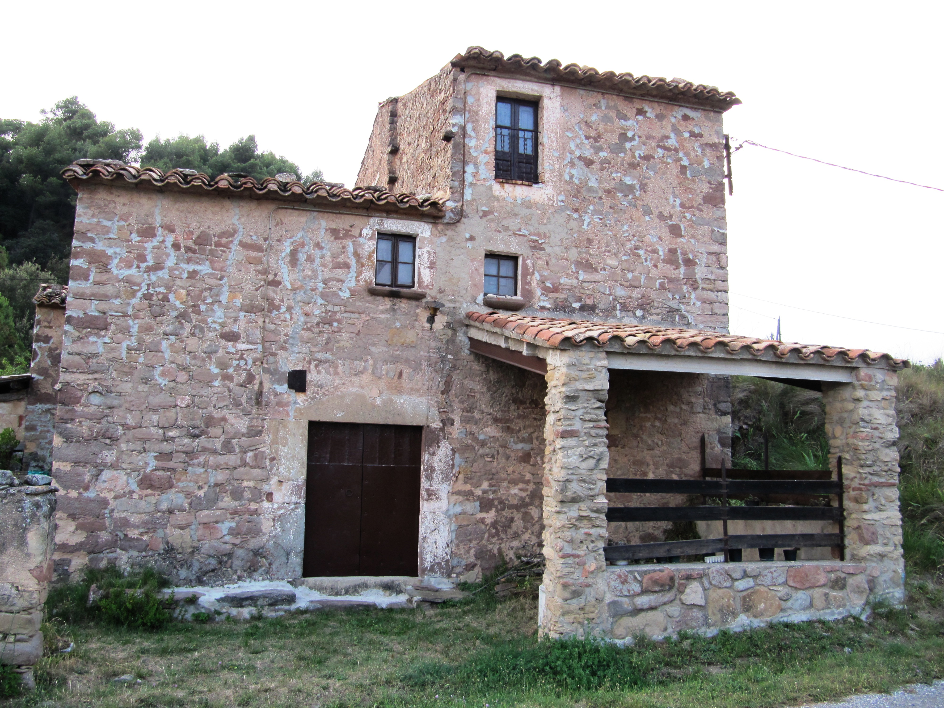 Can Creus at Granera.